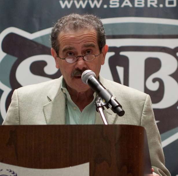 Baseball historian John Thorn at a SABR awards luncheon in 2010. Photo courtesy of The SABR Office, via Flickr. This file has been extracted from another file: John Thorn 2010.jpg